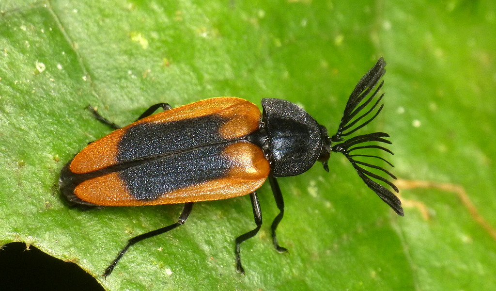 Firefly, Cladodes sp., Lampyridae with fan like antenna